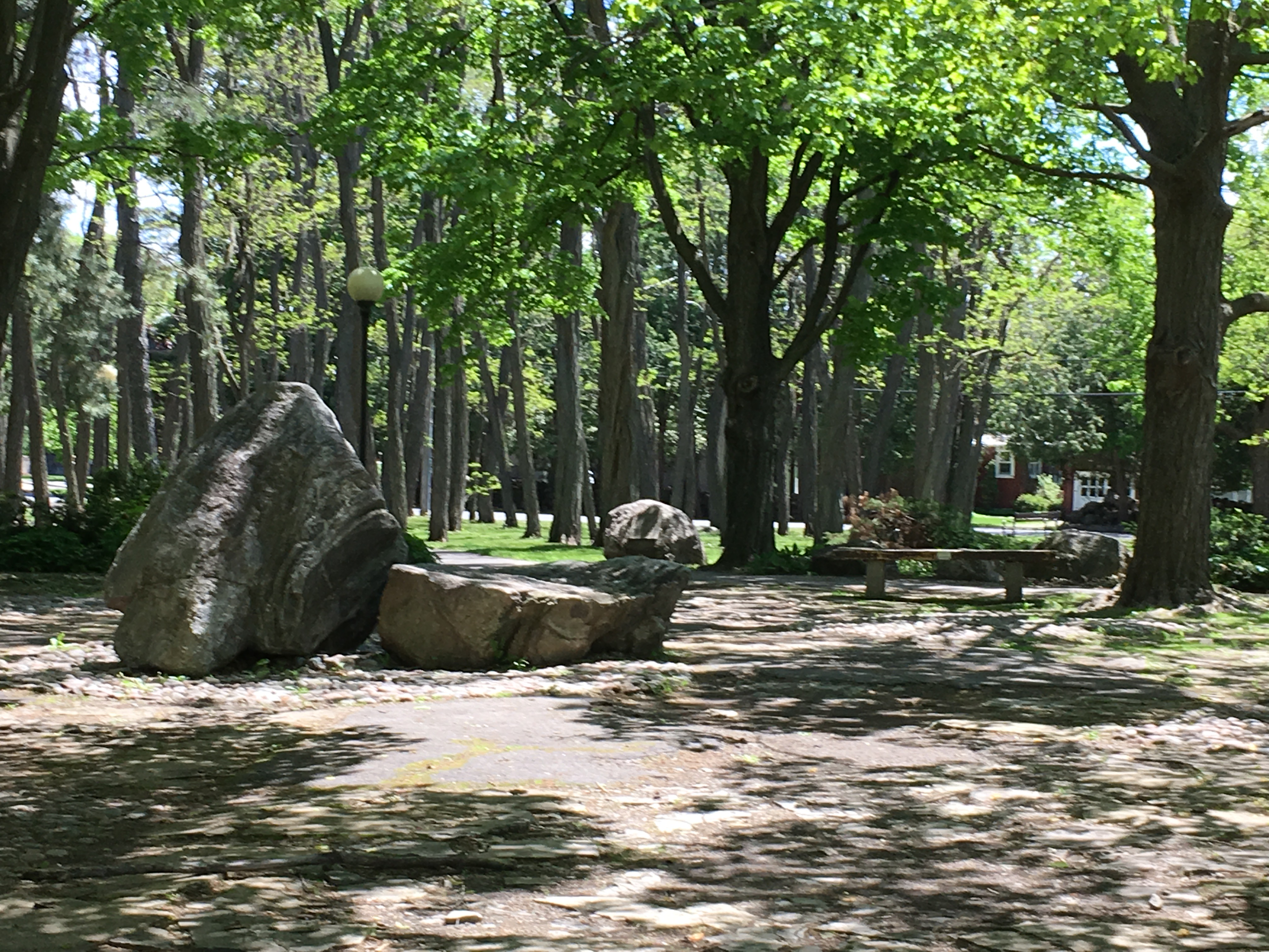 The Stone Circle is the central area of the village green, Rockcliffe Park, Ontario